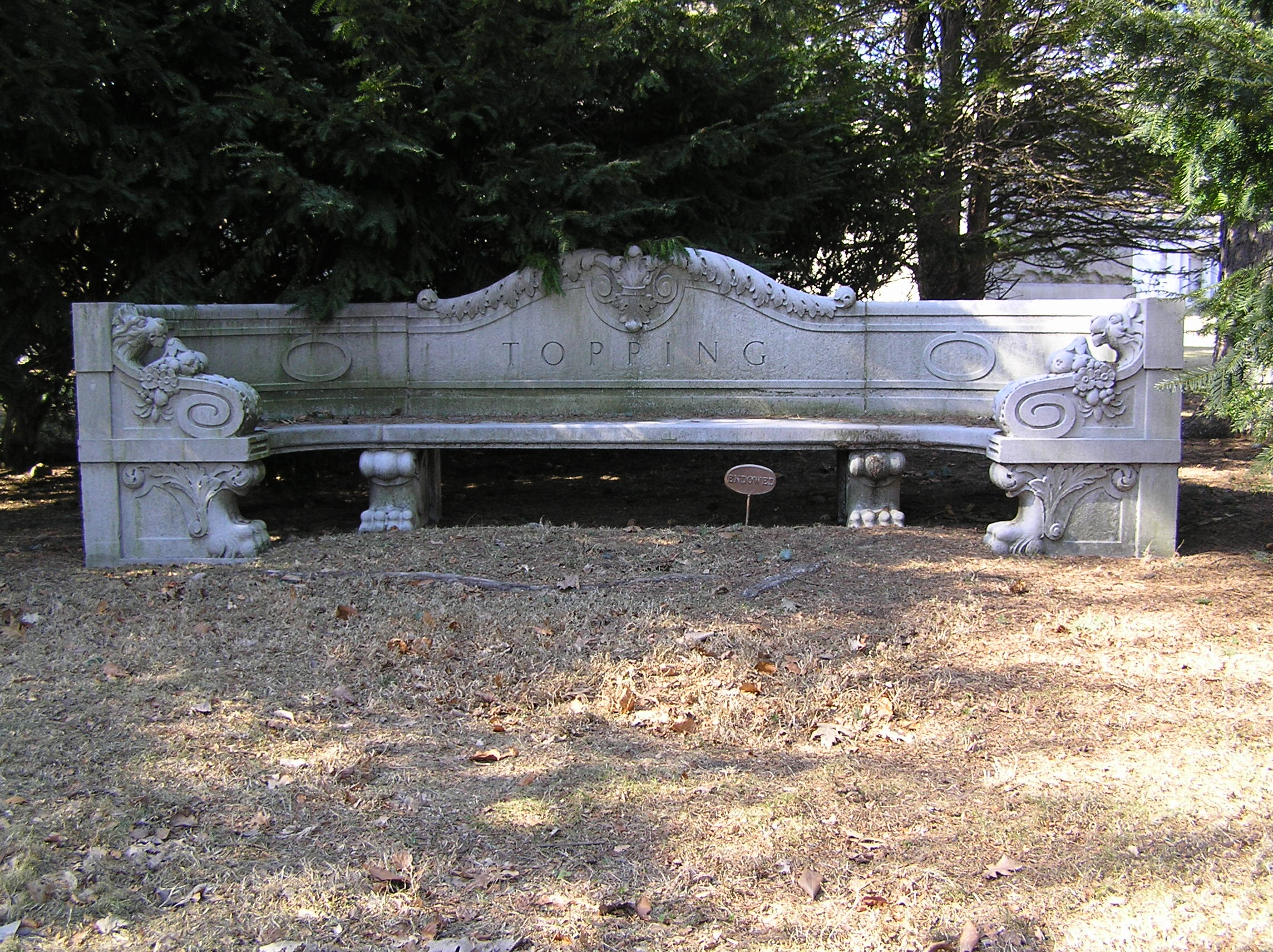 The gravesite of Dan Topping in Woodlawn Cemetery, Bronx, NY